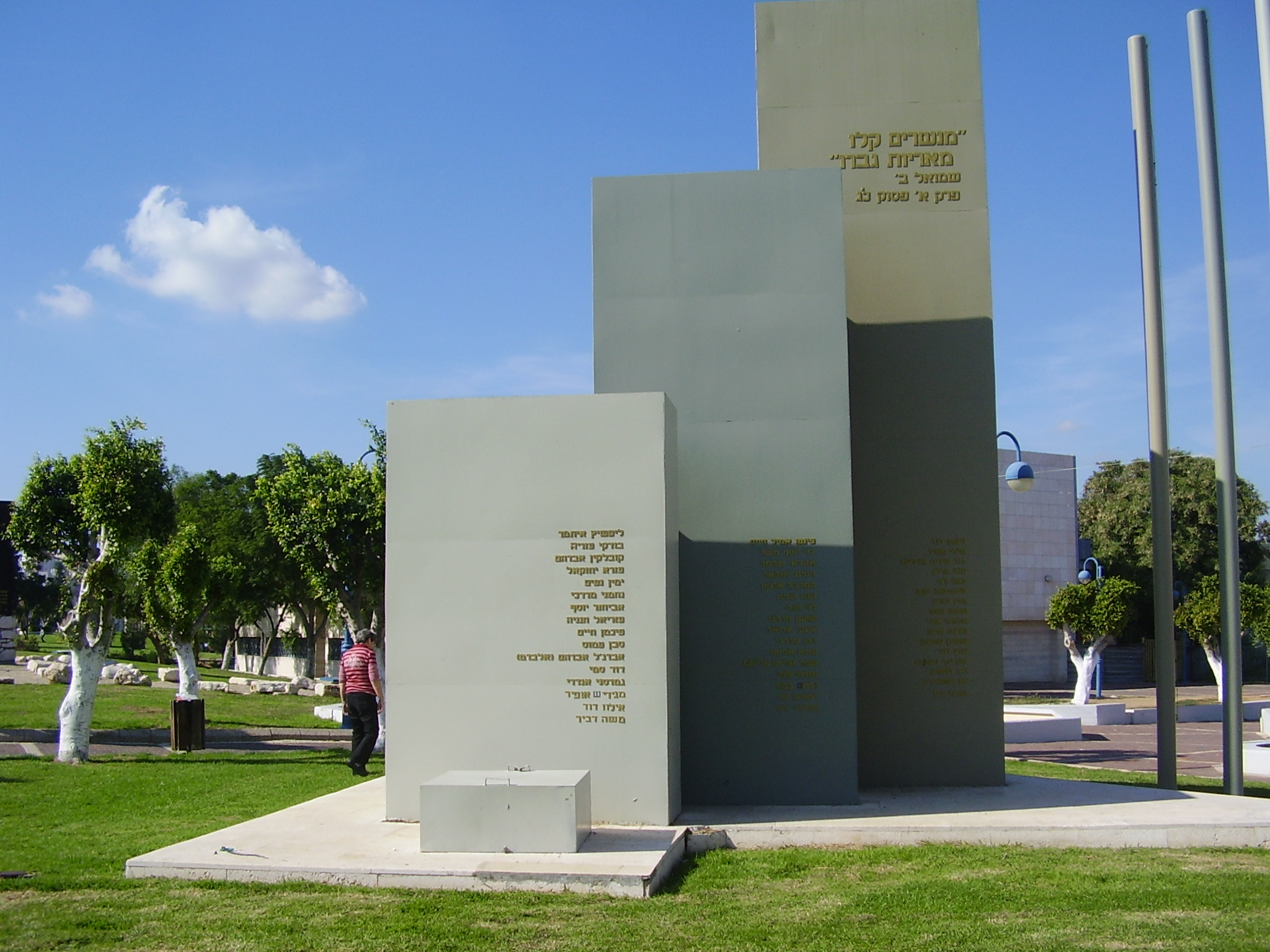 war memorial in kiriyat malachi